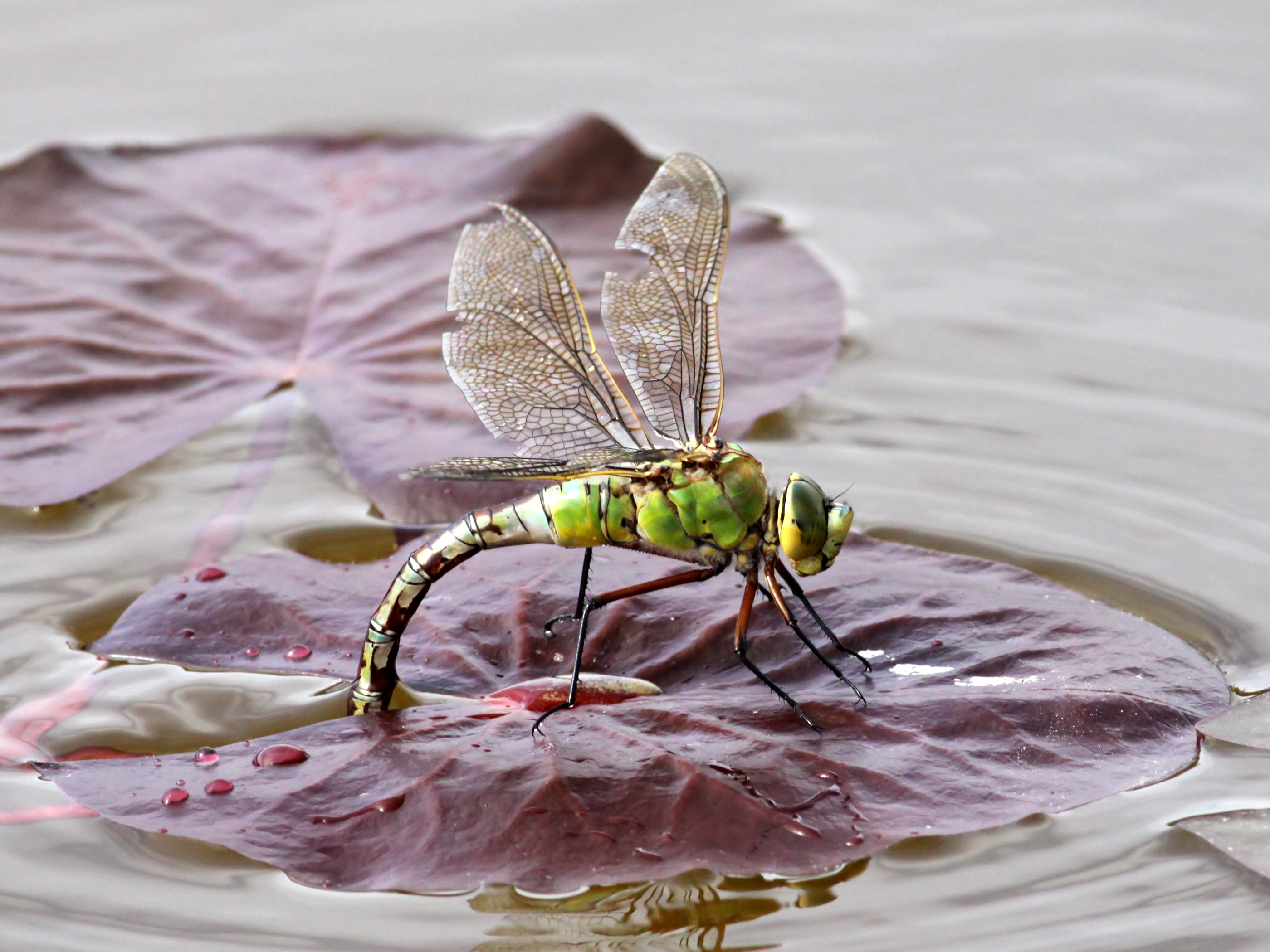 Emperor Dragonfly (Anax imperator) Photo taken at Gubbeen, County Cork, Republic of Ireland.